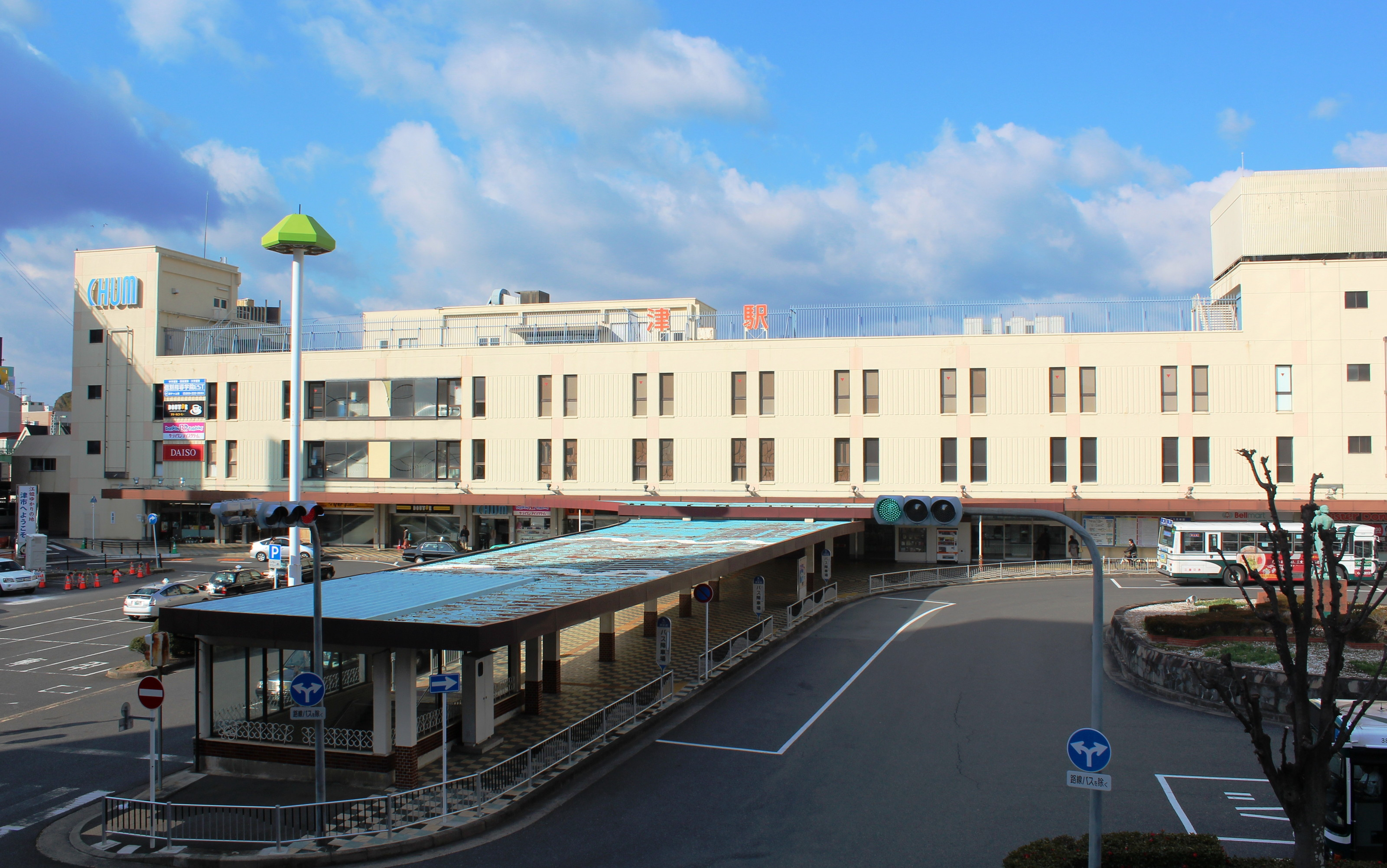 Tsu Station